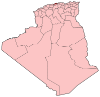 Map of Algeria showing Algiers province